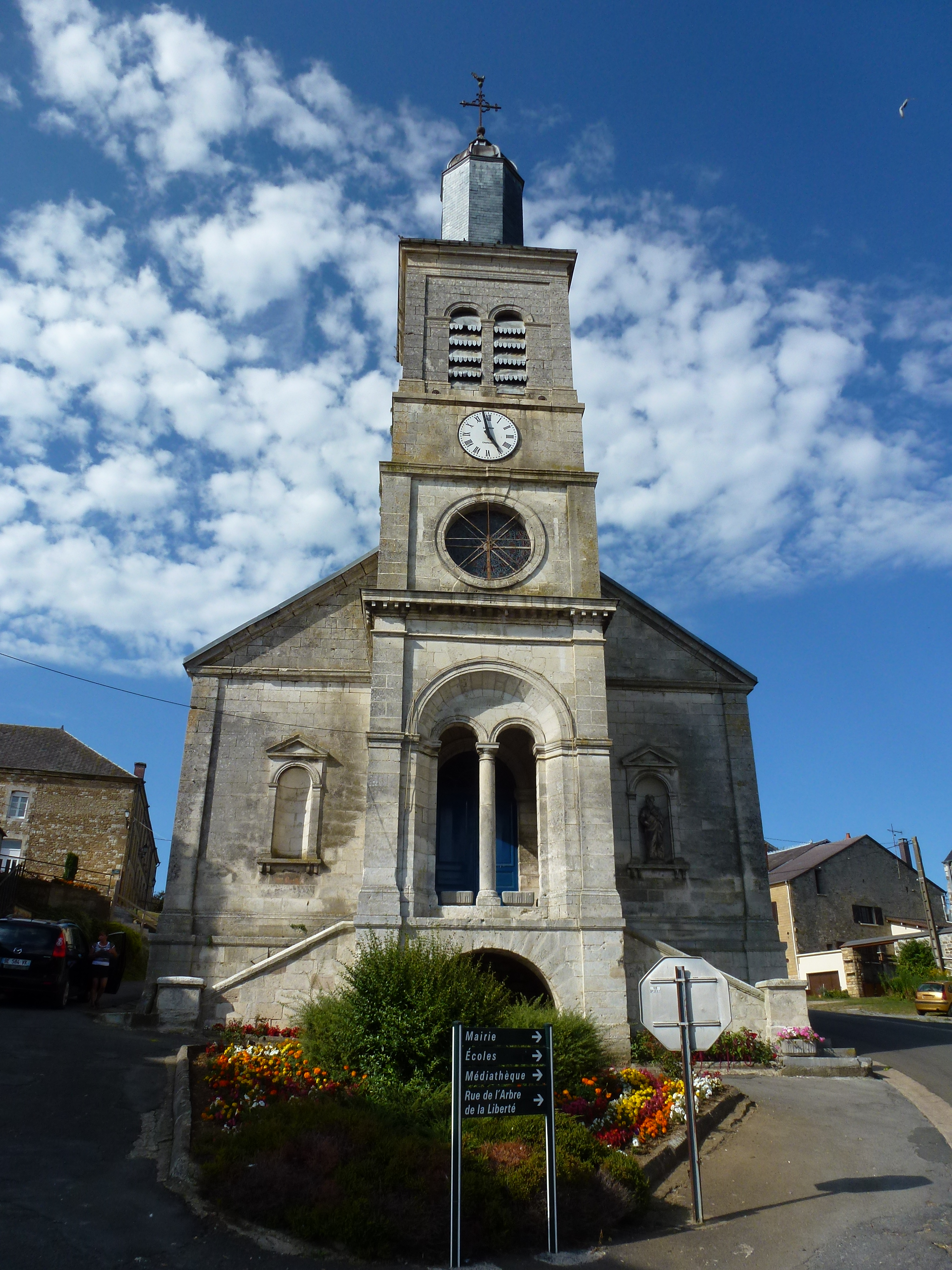 Aubigny-les-Pothées (Ardennes) église, façade